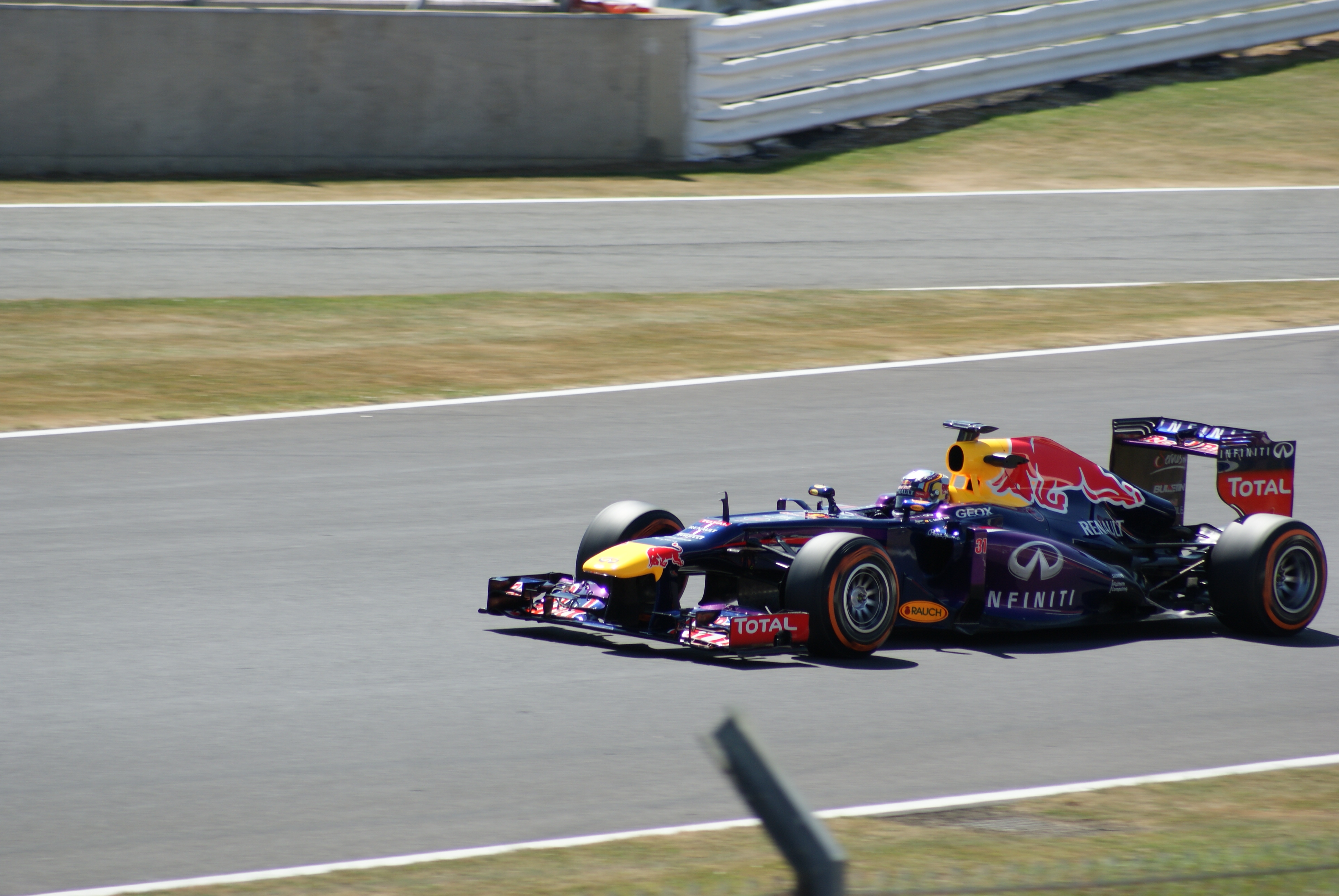 Carlos Sainz Jr - Young Driver Test 2013 - Silverstone - 19/07/2013